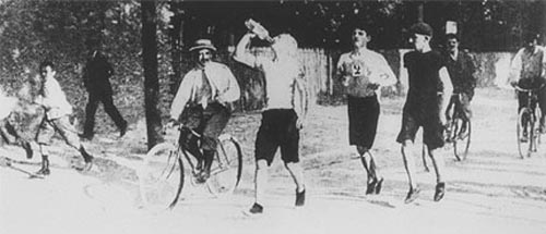 Emile Champion at the 1900 Olympic Games in the marathon run photography, reproduction, no restrictions on use